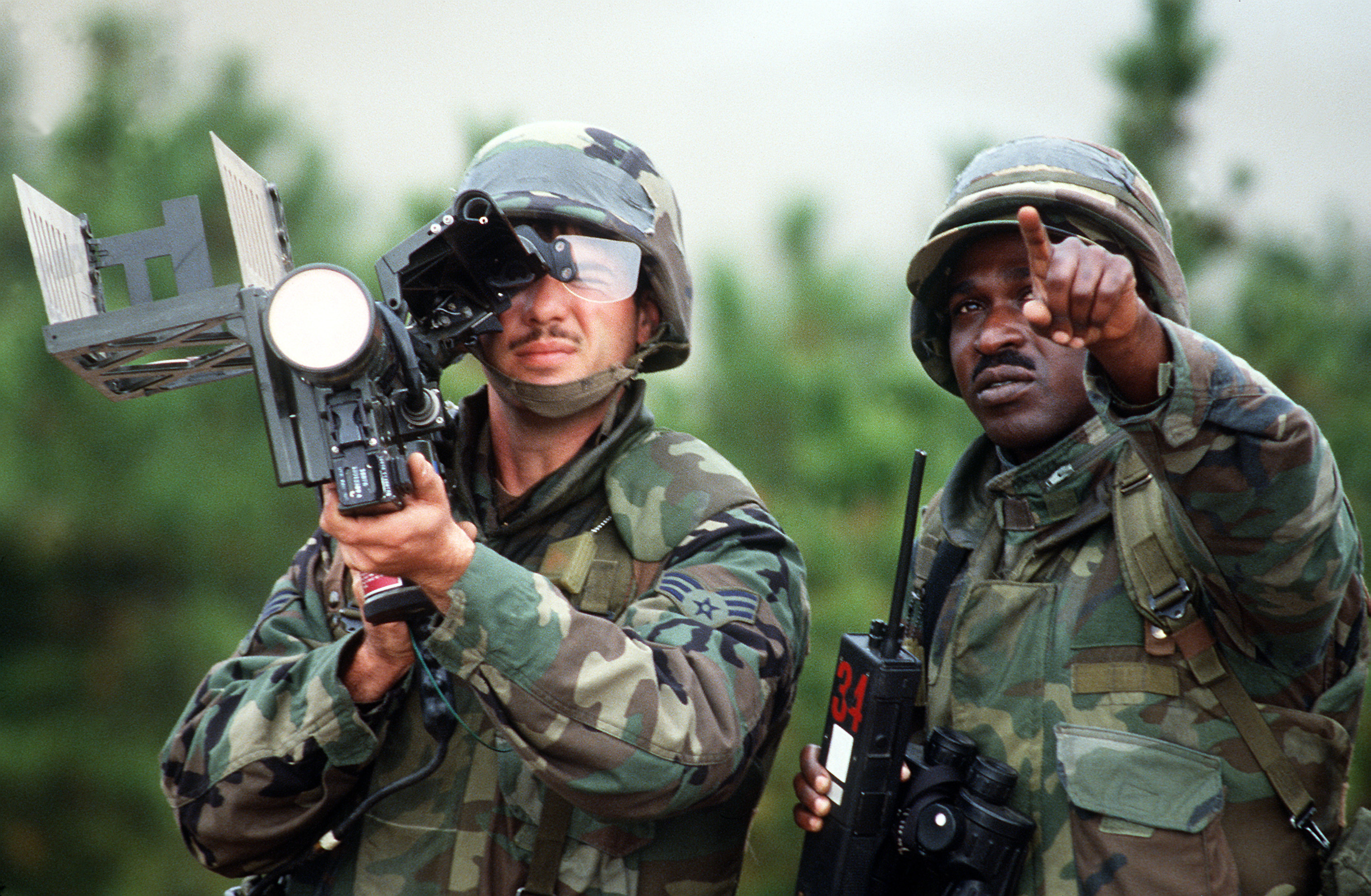 Staff Sgt. Warren Jackson points out a target to Stinger anti-aircraft guided missile gunner Sgt. Gary Cross during the air base ground defense Exercise Foal Eagle '89. Both are members of the 8th Security Police Squadron, which is the only Air Force security police unit to have a Stinger section. Air Force security police personnel from various U.S. and Pacific commands are taking part in the exercise.